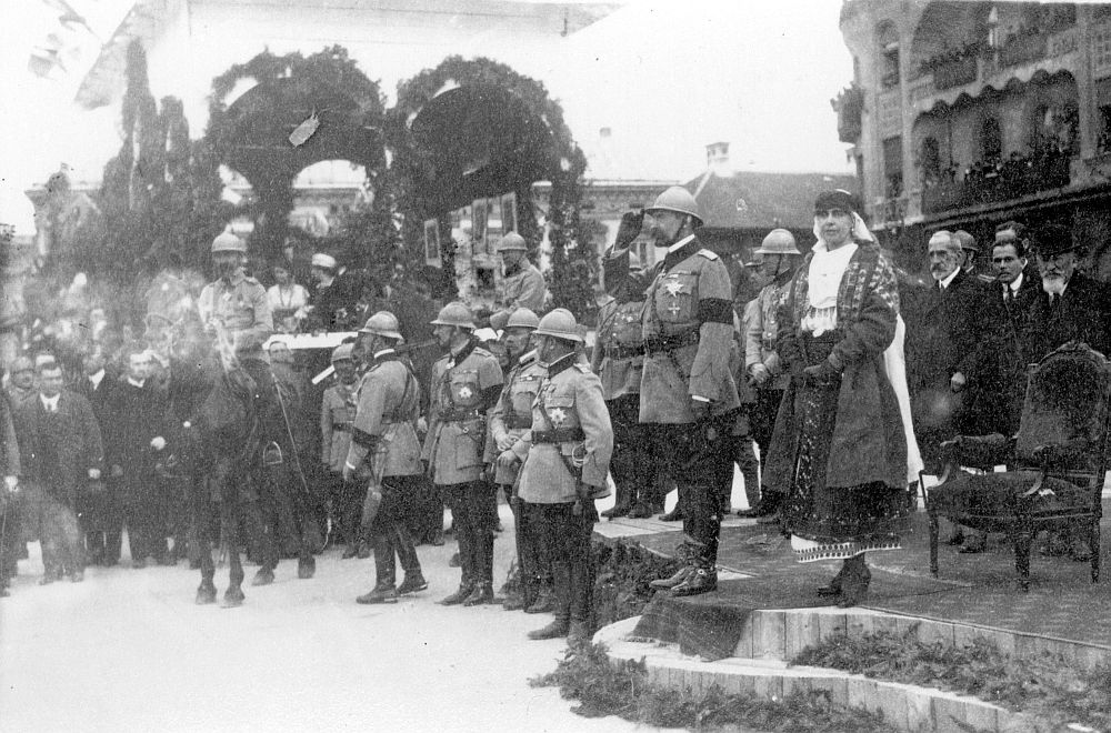 King Ferdinand and Queen Marie saluting the troops.